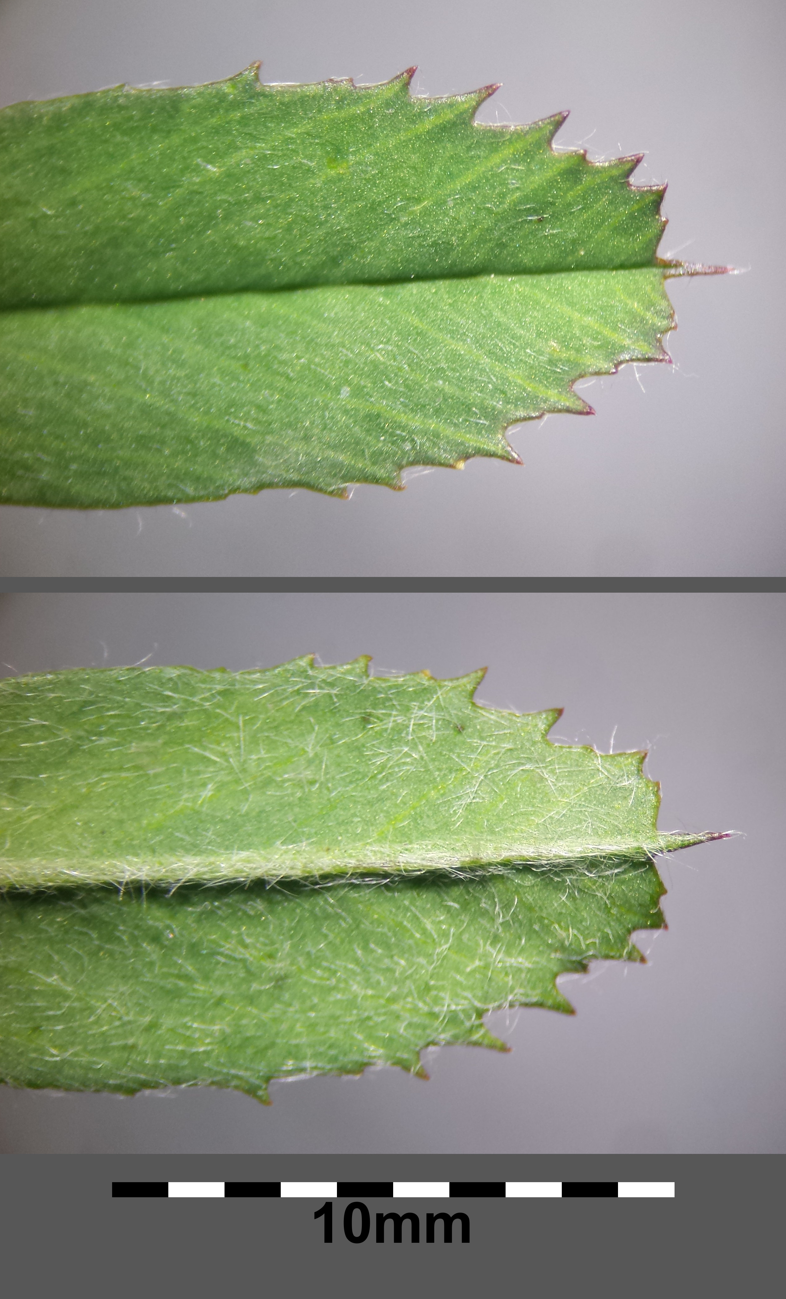 Dentated leaflet (top and bottom side) Taxonym: Medicago falcata × M. sativa ss Fischer et al. EfÖLS 2008 ISBN 978-3-85474-187-9 Location: Floridsdorf rail station, Vienna-Floridsdorf - ca. 160 m a.s.l. Habitat: ruderal area